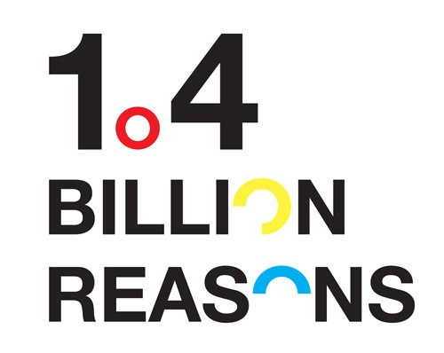 1.4 Billion Reasons presentation.